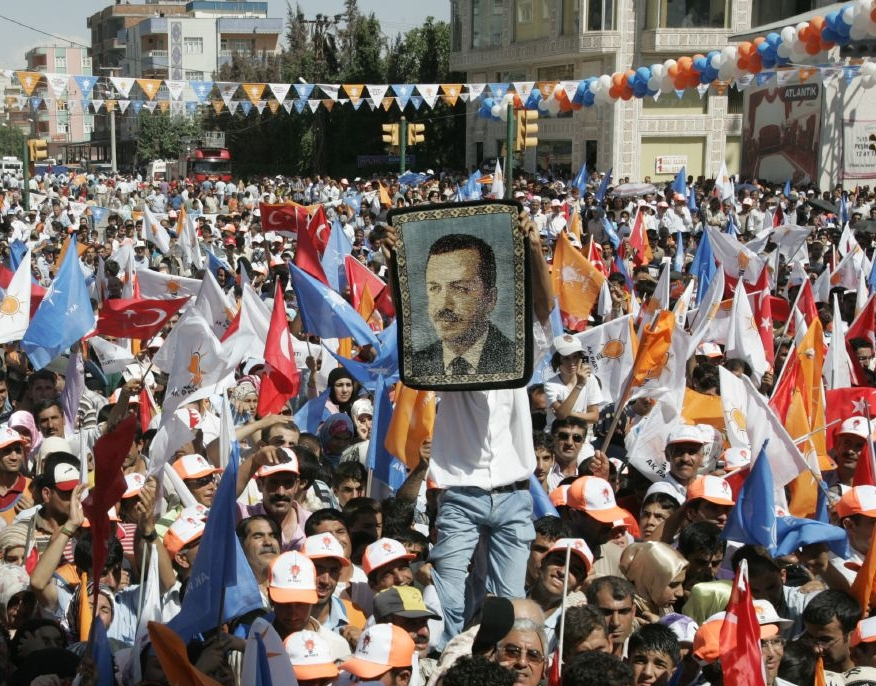 Miting of the Justice and Development Party in Turkey